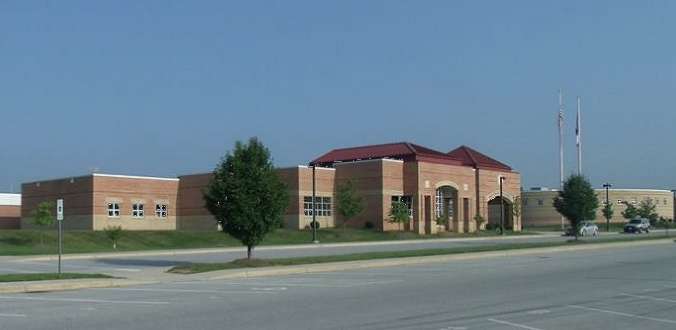 Jefferson High School, Shenandoah Junction, West Virginia.